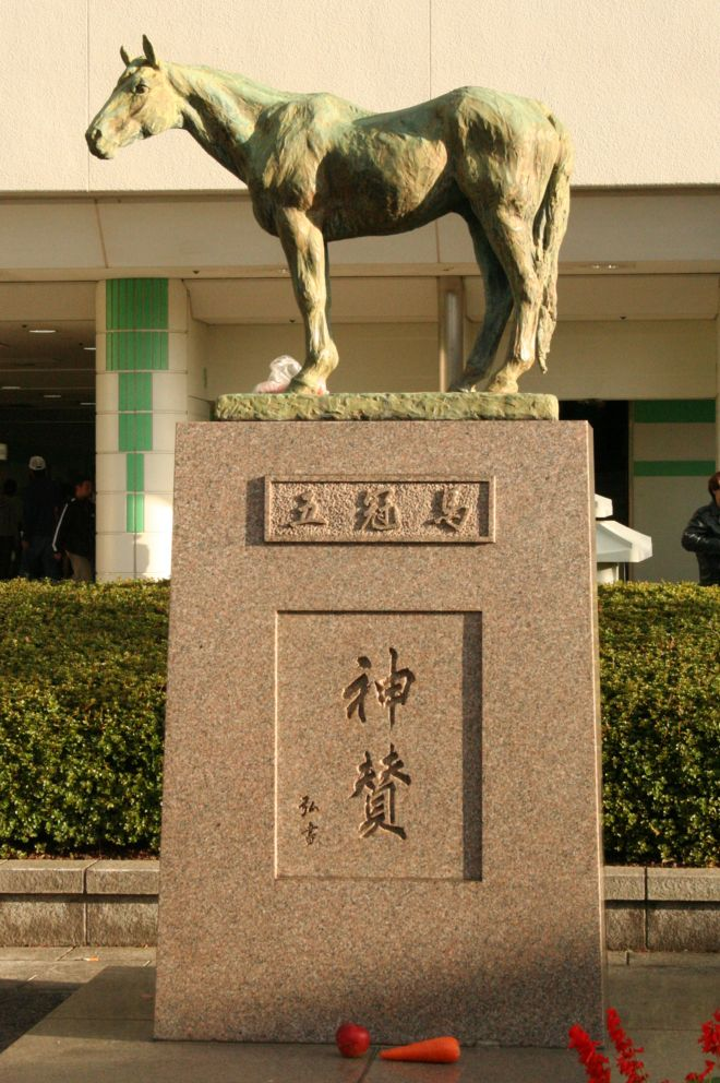 Shinzan statue(In Kyoto Racecource on October 23, 2005. )